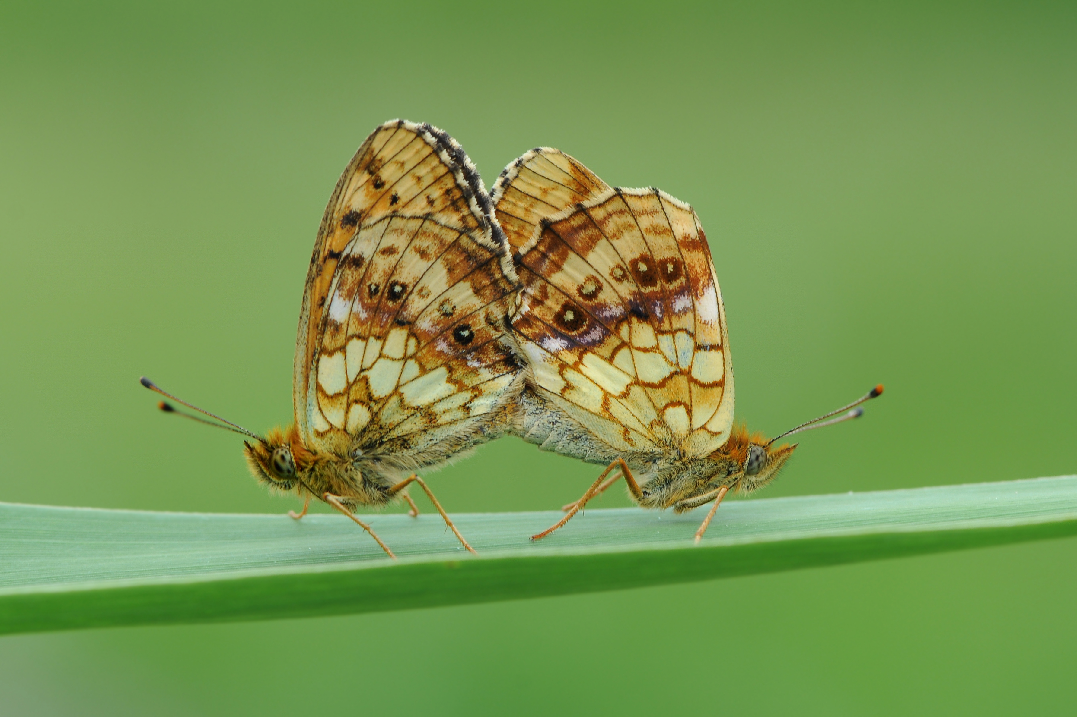 The Lesser Marbled Fritillary (Brenthis ino) is a butterfly of the Nymphalidae family. It is found in the Central Europe. Widdermoos seen in the municipality of Sennwald in the Rhine Valley (Alpine Rhine).